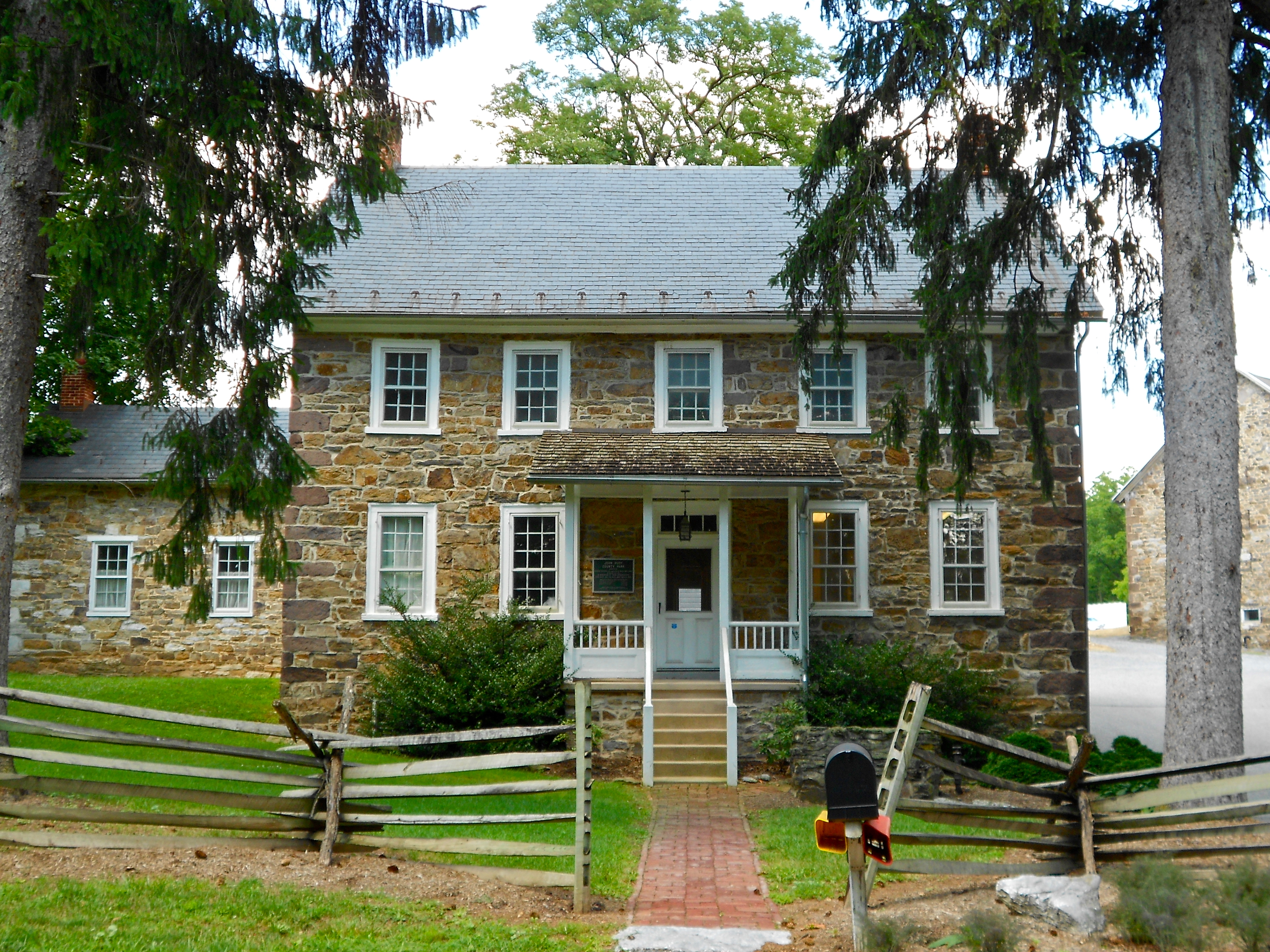 Michael and Magdealena Bixler Farmstead, listed on the NRHP on July 27, 2000. Located at 400 Mundis Race Road, East Manchester Township, York County, Pennsylvania. The house is now the main office of the York County Parks department and the whole area is a big park.